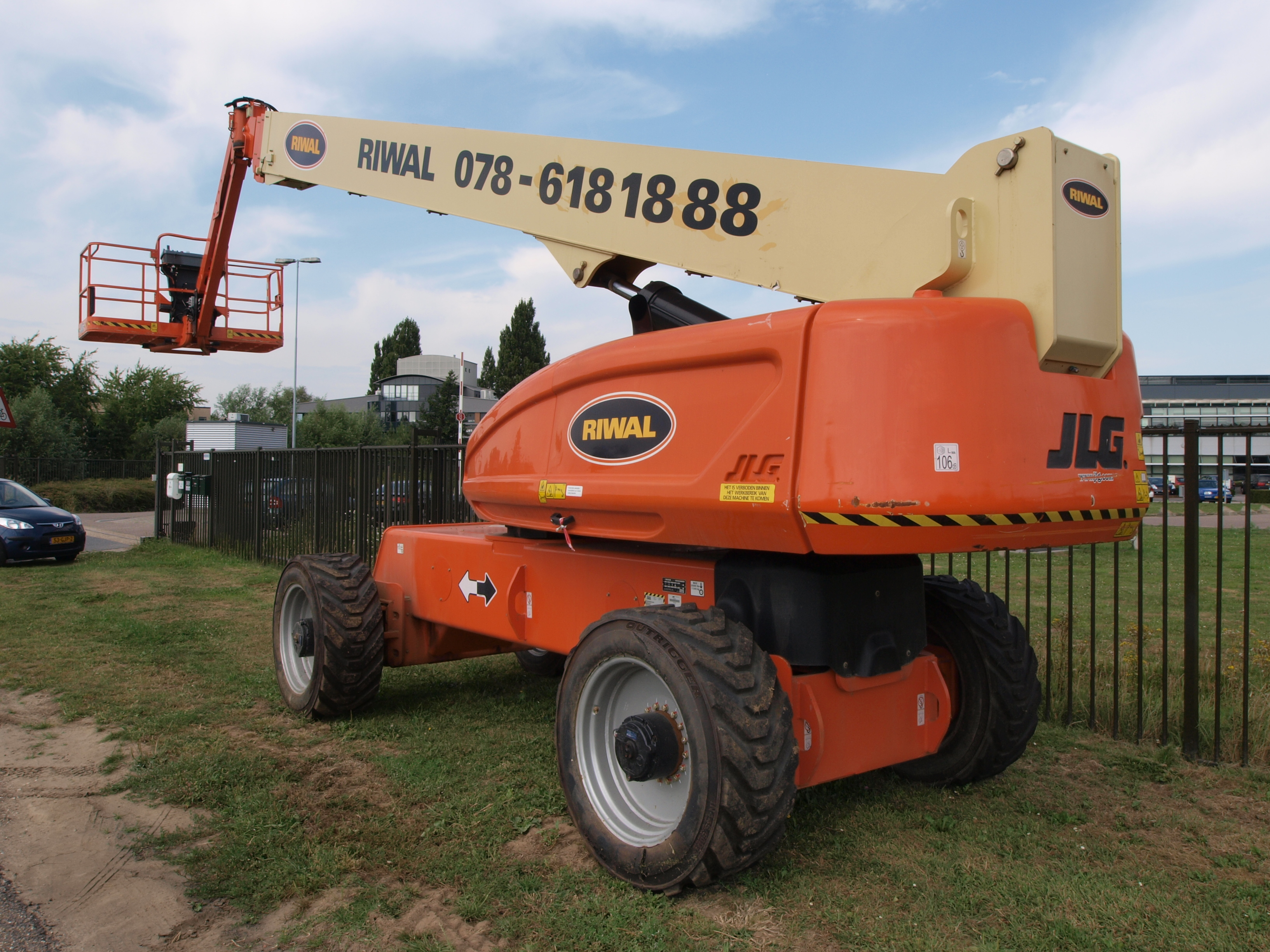 JLG lift 1200SJP cherry-picker